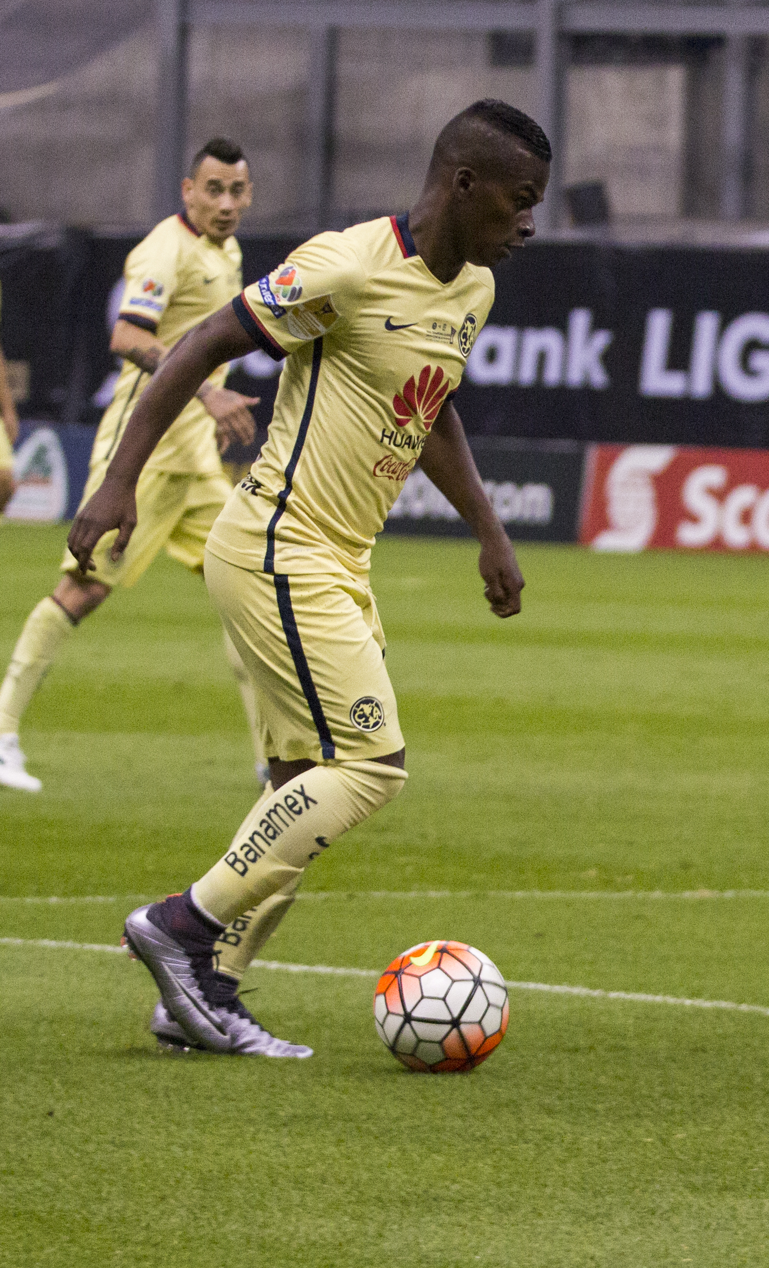 Final CONCACAF 2016